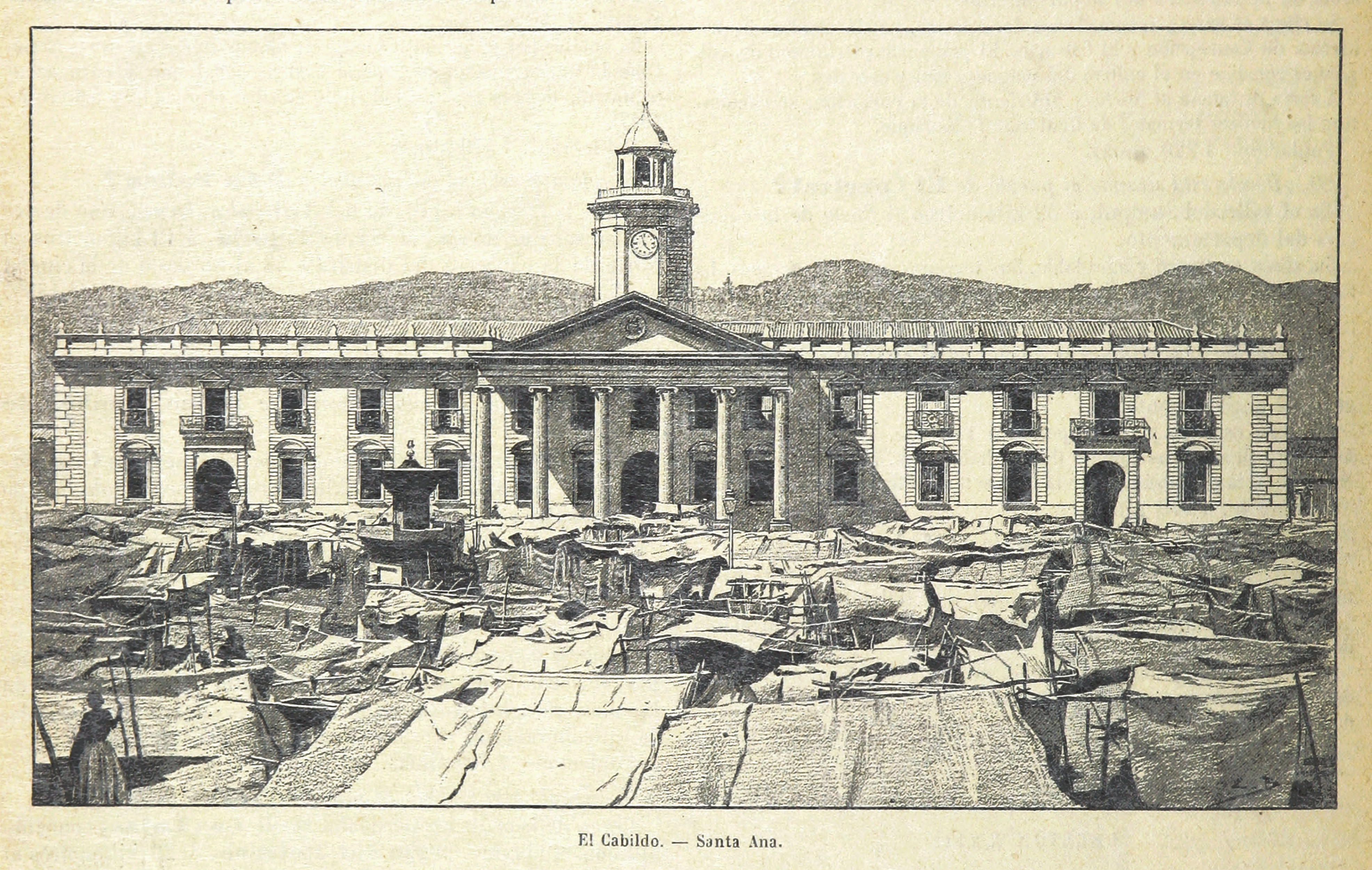 1890 Lithograph showing the original design of the Municipal Palace of Santa Ana, El Salvador. Below is the original public plaza, now Libertád Park.